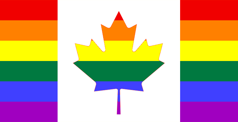 Canada gay pride flag